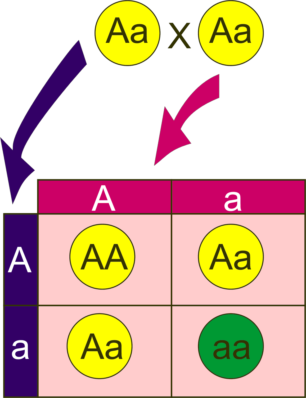 Punnet square monohybrid